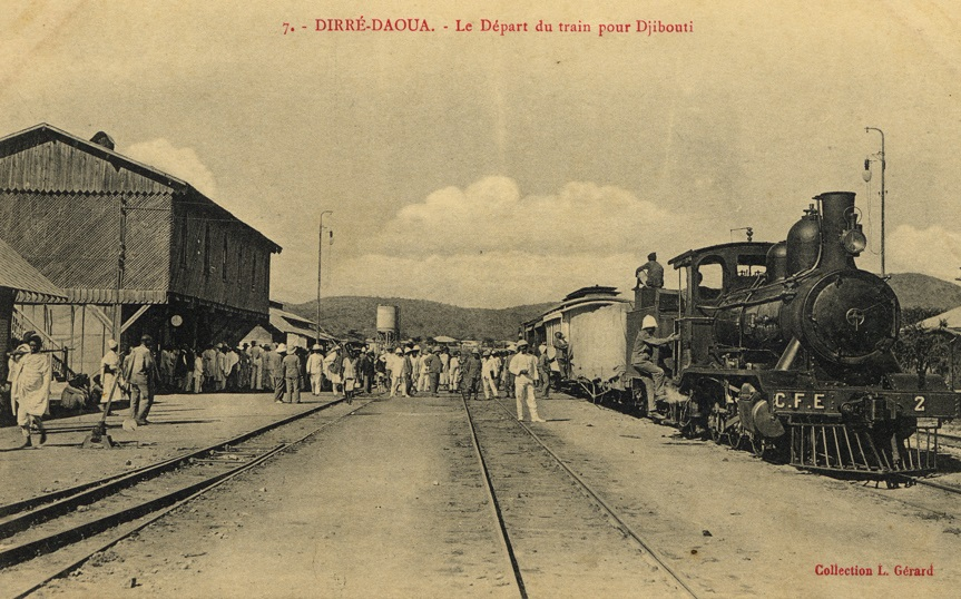 Train leaving Dire Dawa station for Djibouti, about 300 km to the east. "C.F.E." on the locomotive stands for Chemin de fer franco-éthiopien. That train station will be demolished before 1915 to make room for a new one built in stone, still standing today. Contemporary postcard, c. 1912.